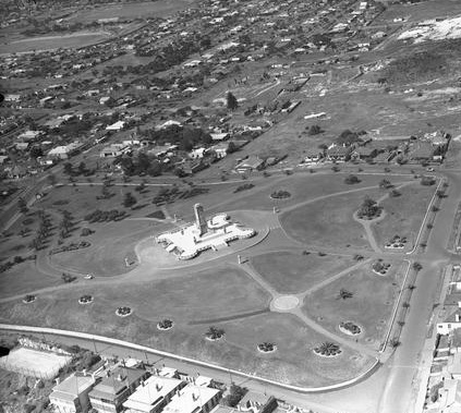 An aerial image of the newly-constructed Fremantle War Memorial in the 1930s, with the undeveloped East Fremantle Oval in the background.